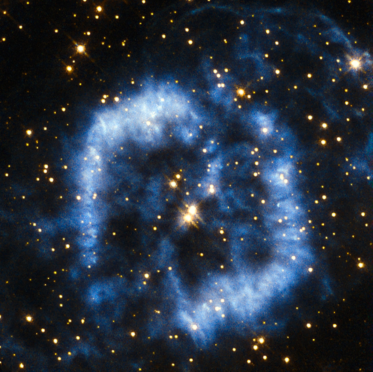 This planetary nebula is called PK 329-02.2 and is located in the constellation of Norma in the southern sky. It is also sometimes referred to as Menzel 2, or Mz 2, named after the astronomer Donald Menzel who discovered the nebula in 1922. When stars that are around the mass of the Sun reach their final stages of life, they shed their outer layers into space, which appear as glowing clouds of gas called planetary nebulae. The ejection of mass in stellar burnout is irregular and not symmetrical, so that planetary nebulae can have very complex shapes. In the case of Menzel 2 the nebula forms a winding blue cloud that perfectly aligns with two stars at its centre. In 1999 astronomers discovered that the star at the upper right is in fact the central star of the nebula, and the star to the lower left is probably a true physical companion of the central star. For tens of thousands of years the stellar core will be cocooned in spectacular clouds of gas and then, over a period of a few thousand years, the gas will fade away into the depths of the Universe. The curving structure of Menzel 2 resembles a last goodbye before the star reaches its final stage of retirement as a white dwarf. A version of this image was entered into the Hubble's Hidden Treasures image processing competition by contestant Serge Meunier.